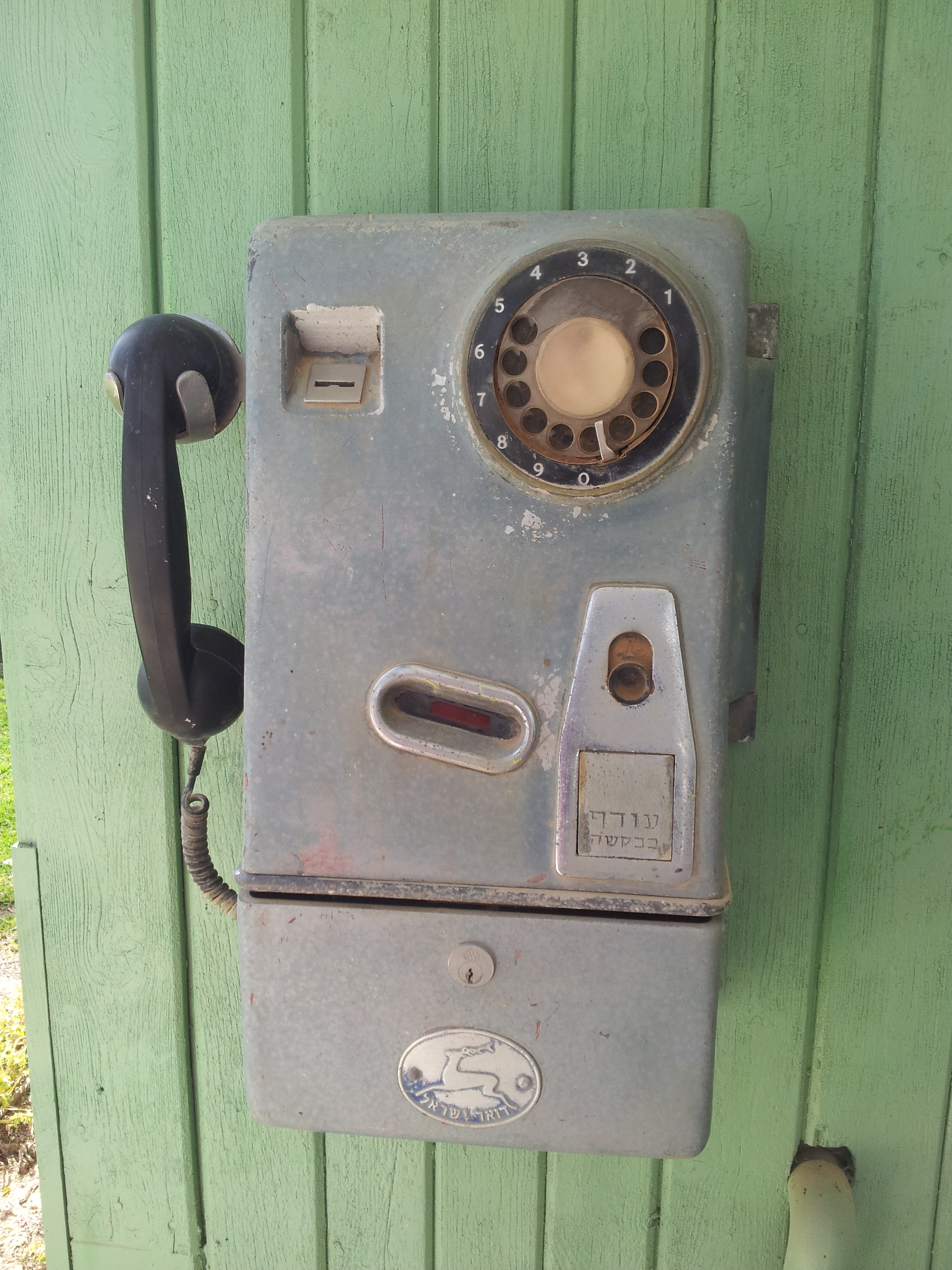 Old Israeli Pay Phone